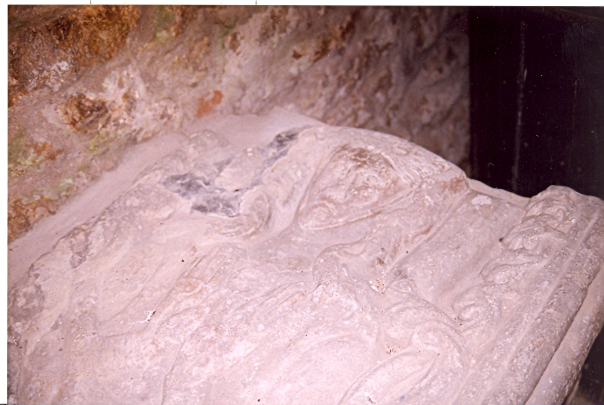 Sarcophagus of Joan, Lady of Wales (d 1237) Beaumaris Church, Anglesey